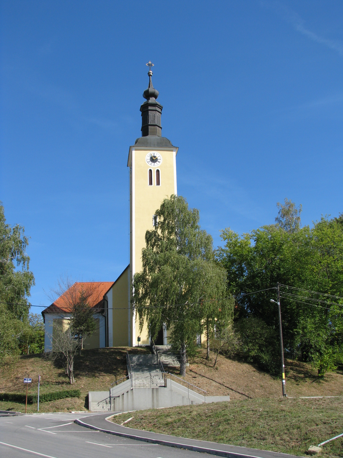 Church of St. Brice, Brckovljani Municipality, Croatia